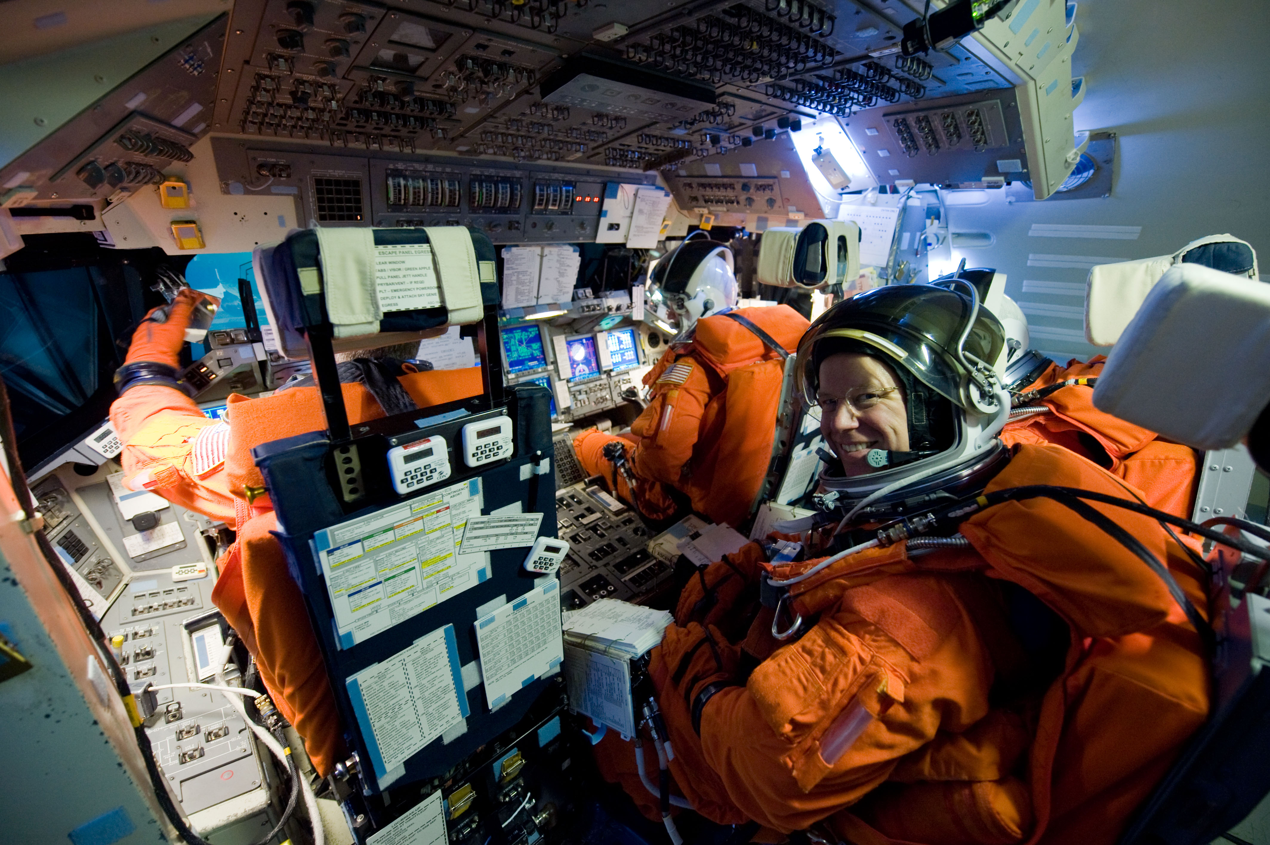 Attired in training versions of their shuttle launch and entry suits, STS-133 commander Steve Lindsey, pilot Eric Boe (background), and mission specialists Tim Kopra (right foreground) and Alvin Drew participate in a simulation exercise in the motion-base shuttle mission simulator in the Jake Garn Simulation and Training Facility at NASA's Johnson Space Center.